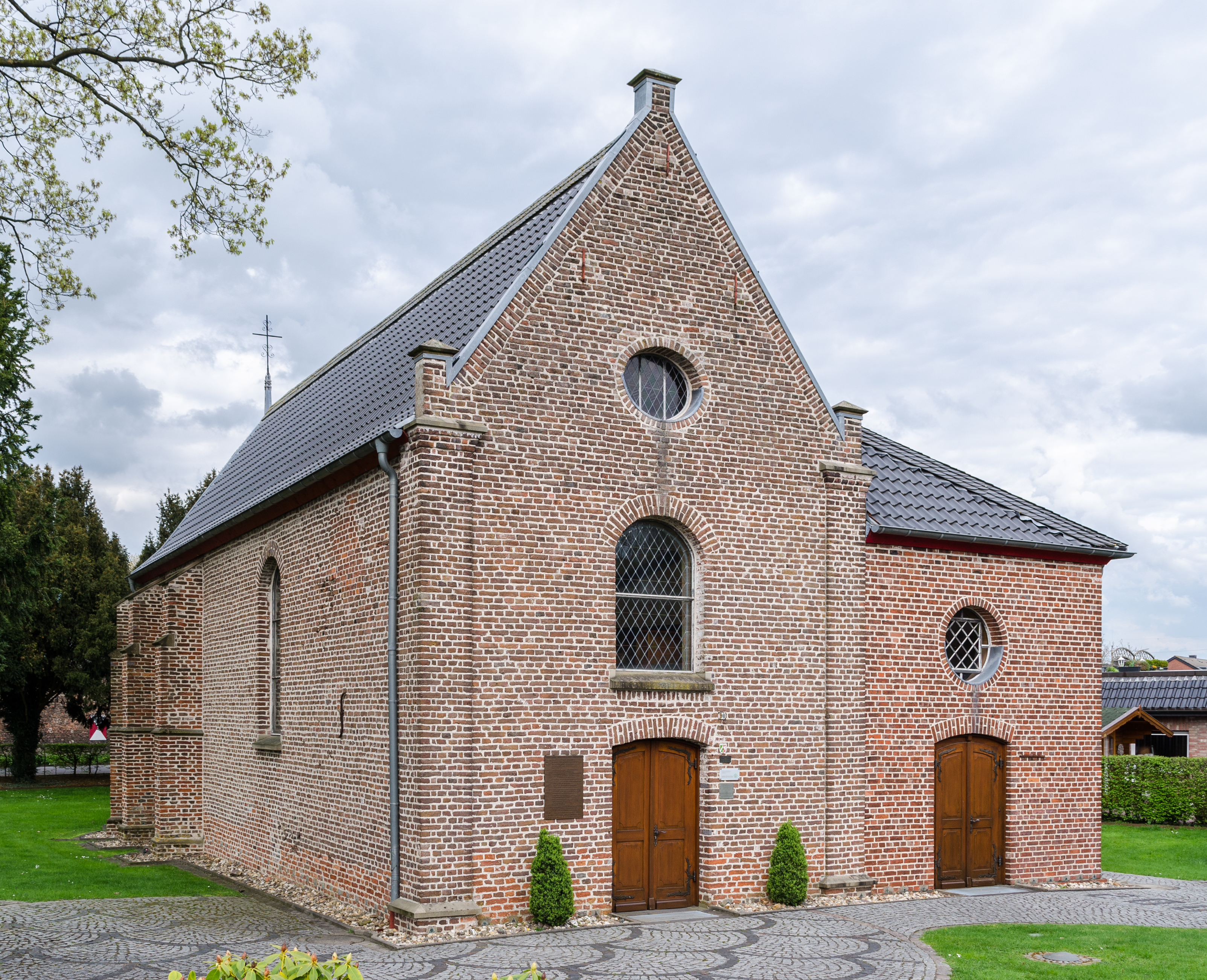 Rheinberg (North Rhine-Westphalia, Germany) – district Ossenberg – castle chapel